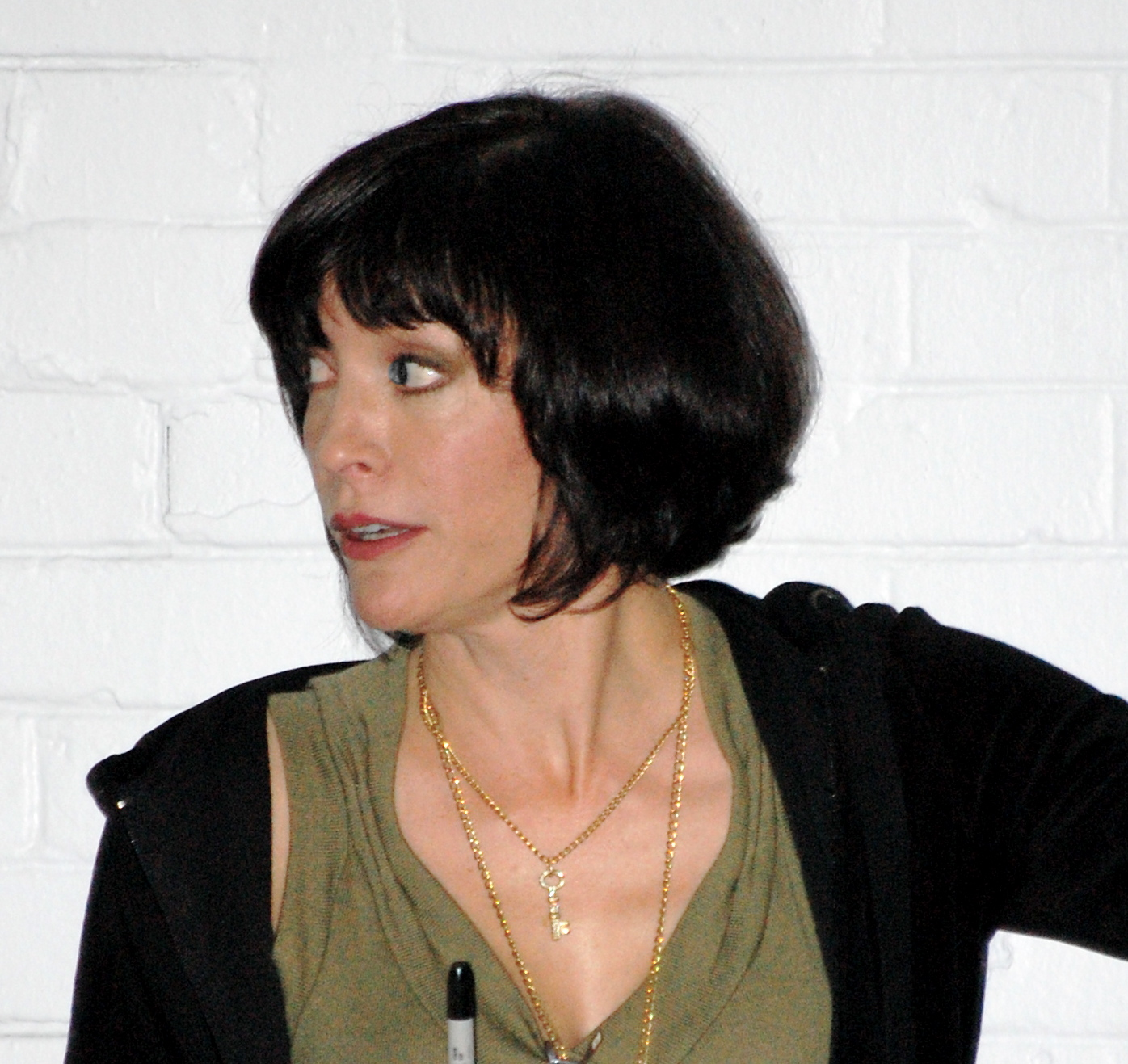 Nana Visitor at the London Film and Comic Con on September 2, 2007